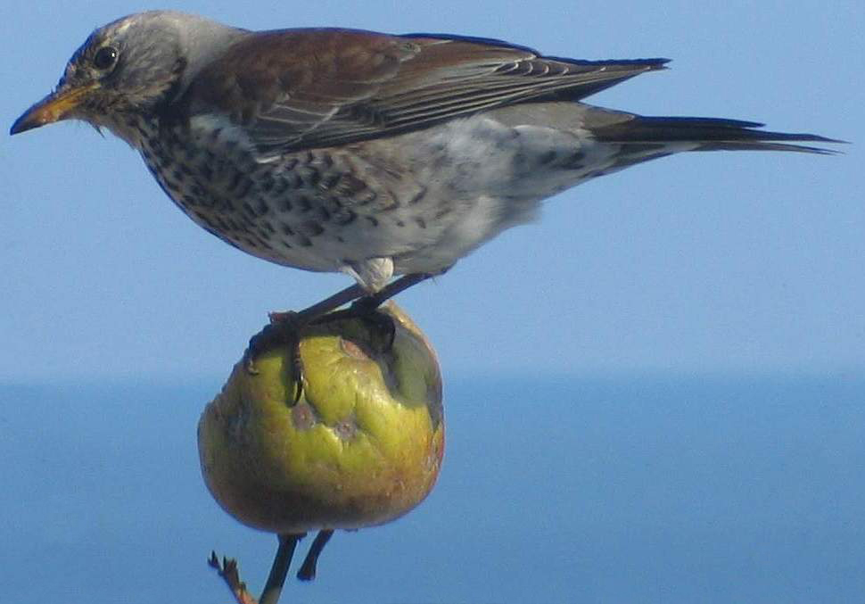 A photo of a fieldfare (Turdus pilaris). Taken by Soebe in nothern Germany and released under GNU FDL.